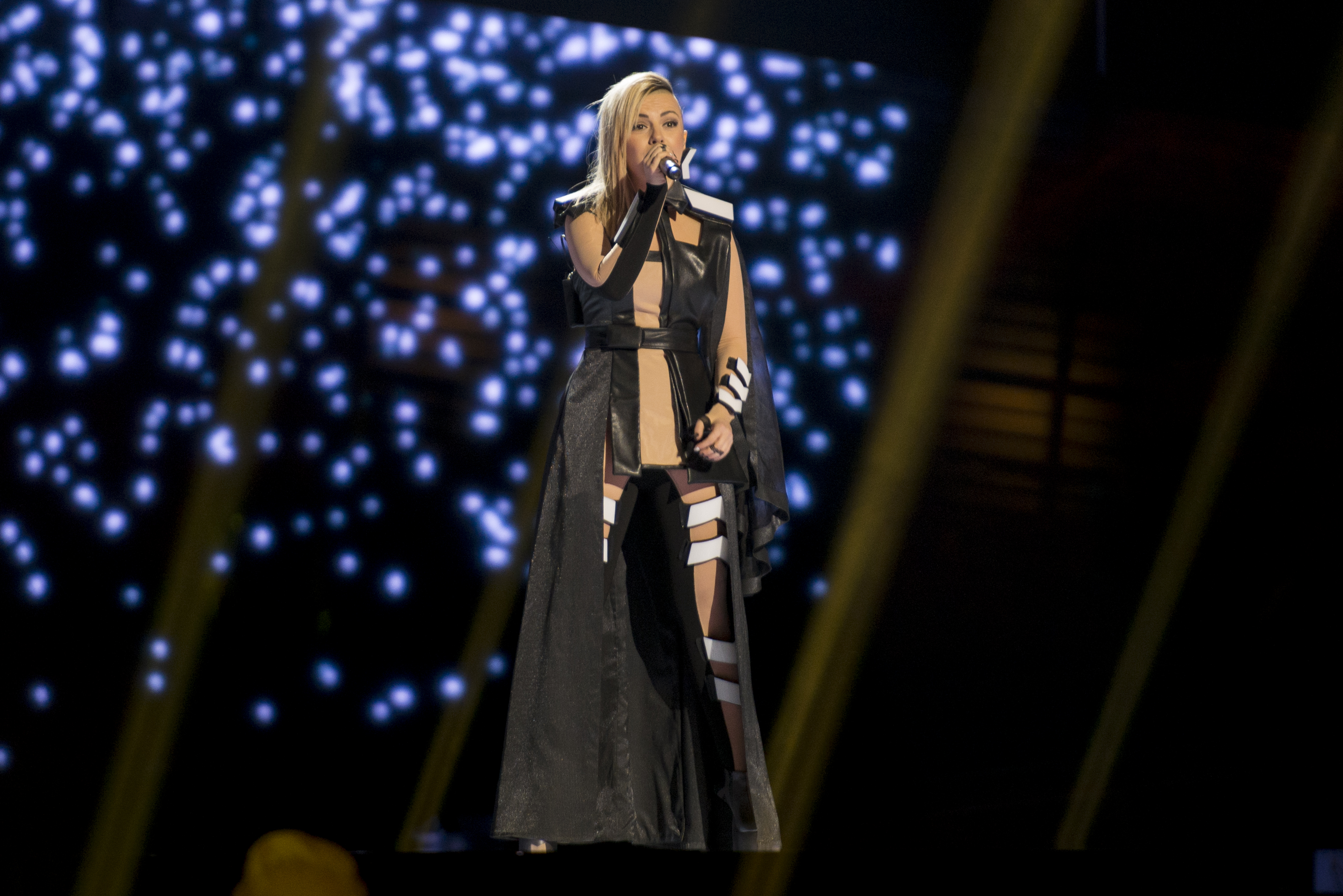 Poli Genova representing Bulgaria with the song "If Love Was a Crime" during a rehearsal before the second semi final of the Eurovision Song Contest 2016 in Stockholm. (Help translate this text)